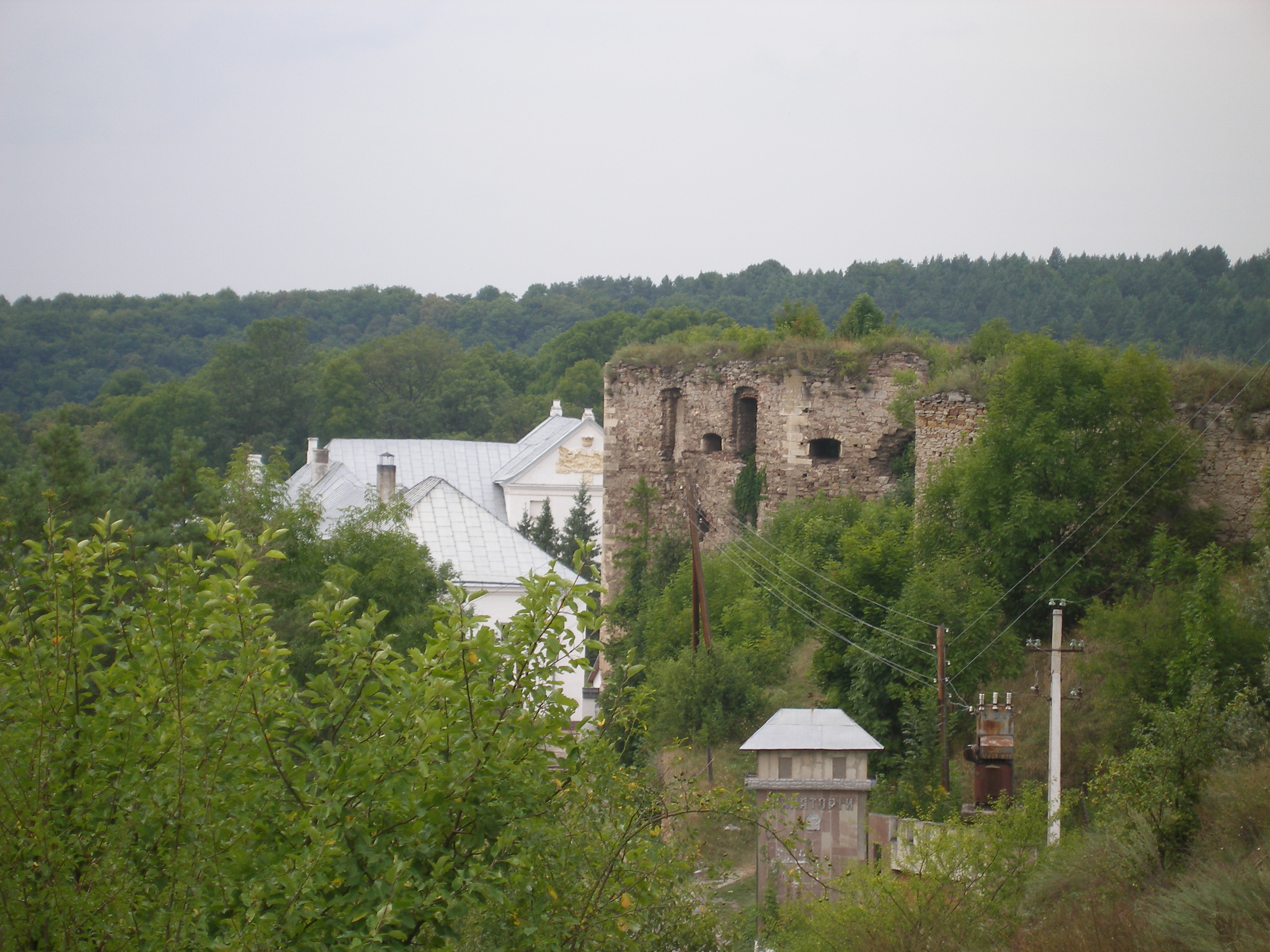 Ruins of castle in Yazlovets, Ternopil Oblast